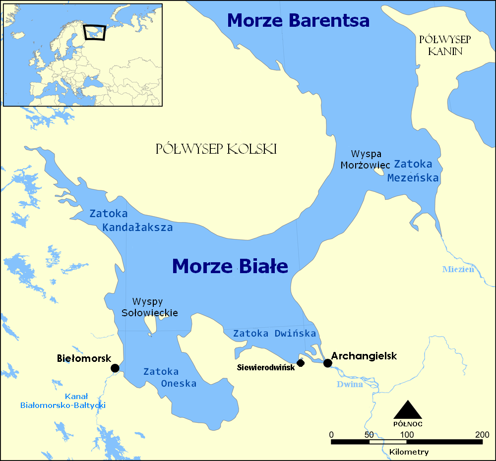 Polish version map of "White Sea"